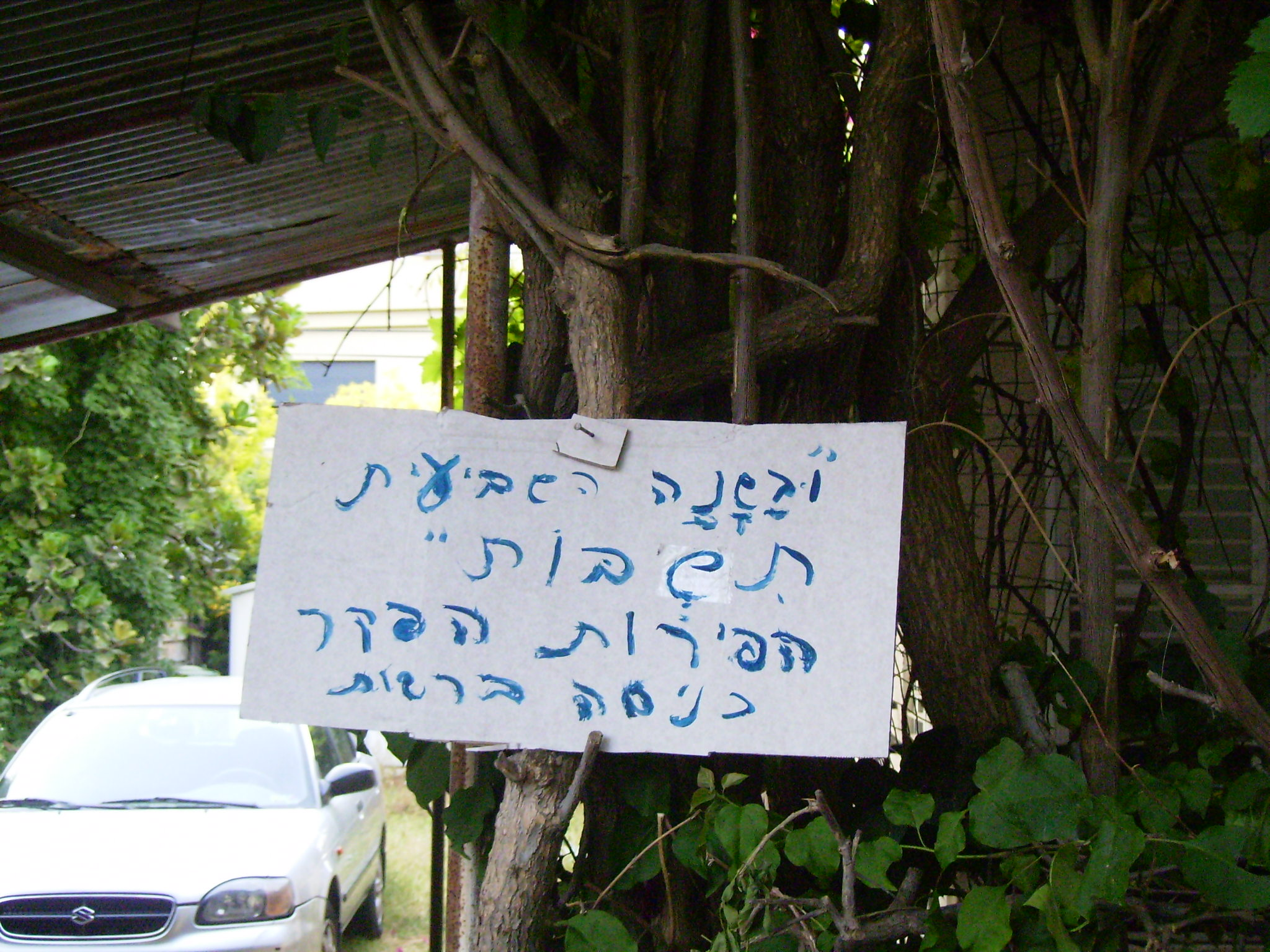 A resident of Holon, Israel, announcing the fruits on the trees in his backyard are hefker (abandoned property) on the occasion of shnat shmita